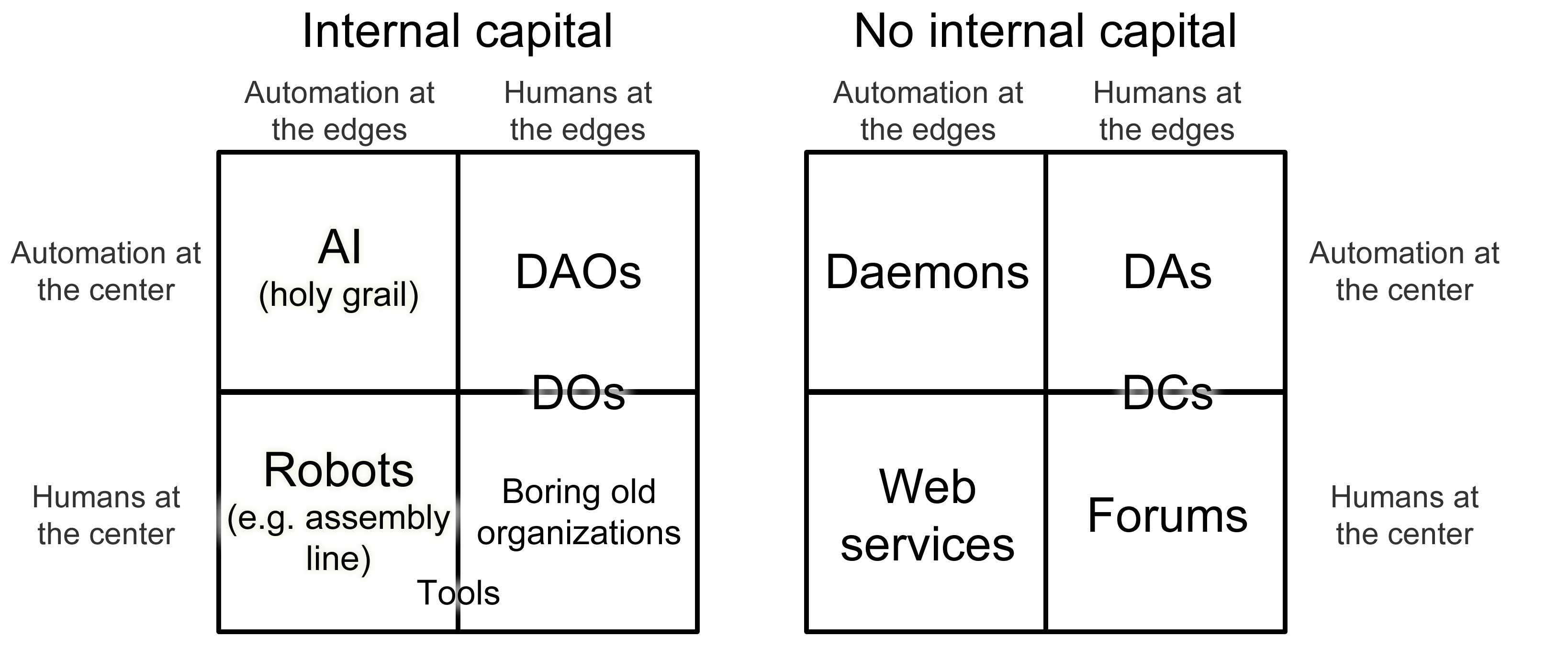 "We can classify DAOs, DOs (and plain old Os), AIs and a fourth category, plain old robots, according to a good old quadrant chart, with another quadrant chart to classify entities that do not have internal capital thus altogether making a cube:"